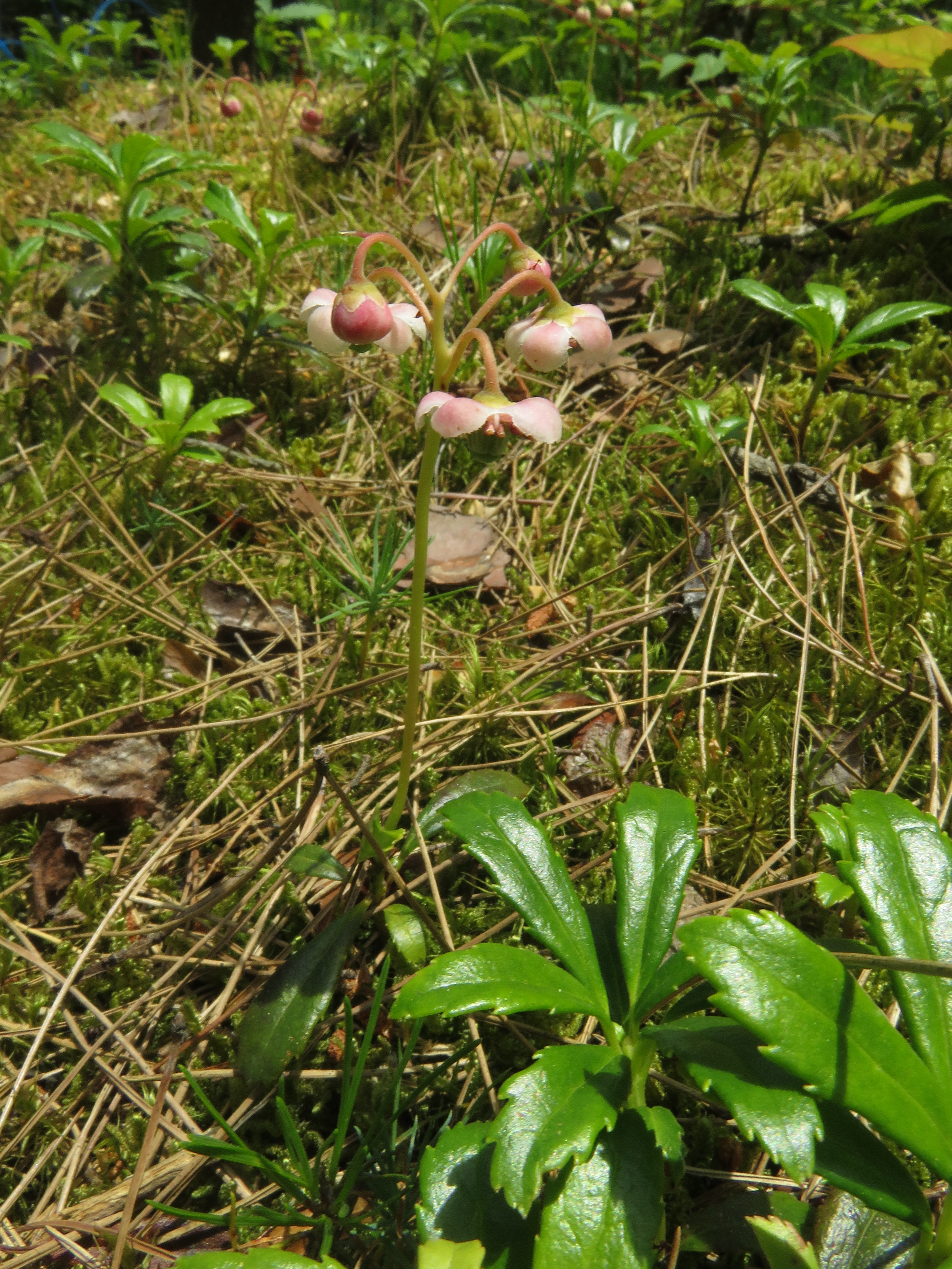 Chimaphila umbellata, Hitachi Seaside Park, Ibaraki pref., Japan